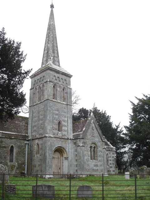 The south tower, spire and transept of St Kenelm's parish church, Stanbridge, Hinton Parva, Dorset, seen from the southwest